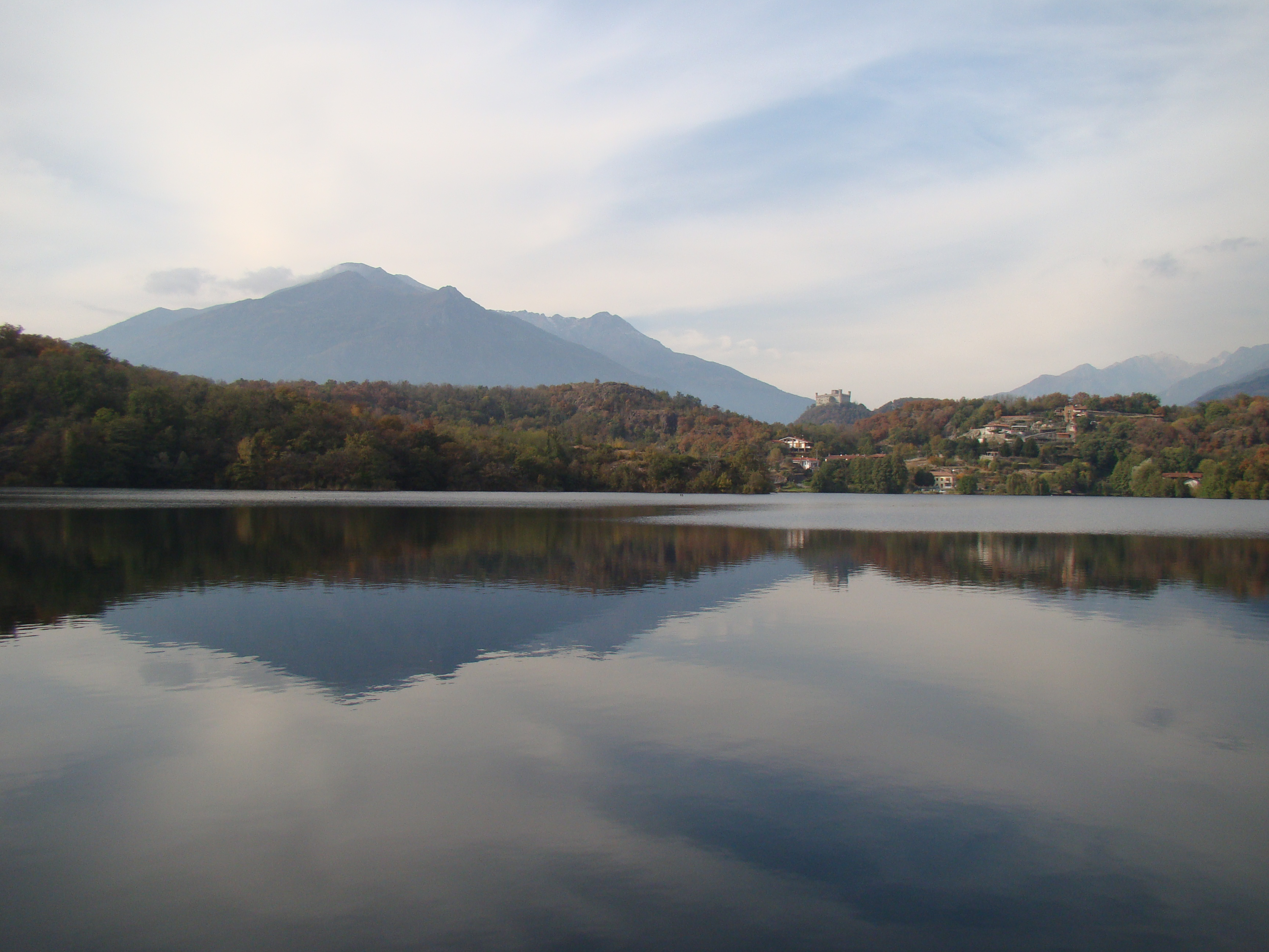 Lake Sirio (Piedmont, Italy) in autumn 2011.